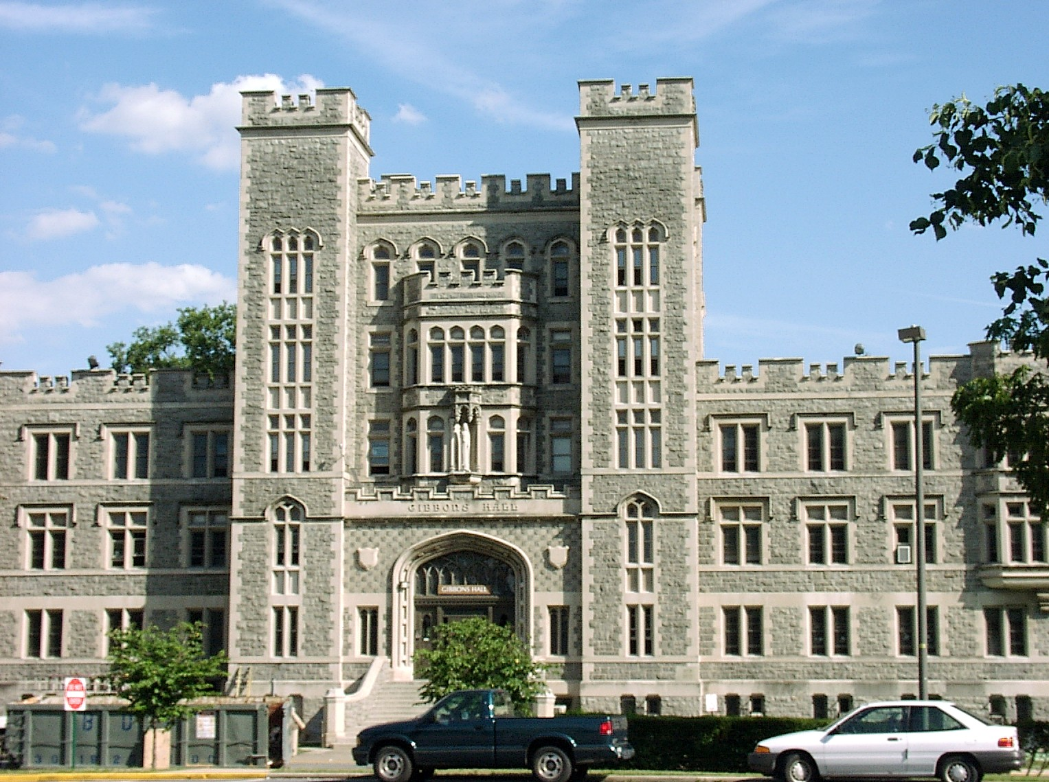 Gibbons Hall, built in 1911, today a residence hall of the Catholic University of America, in Washington D.C.